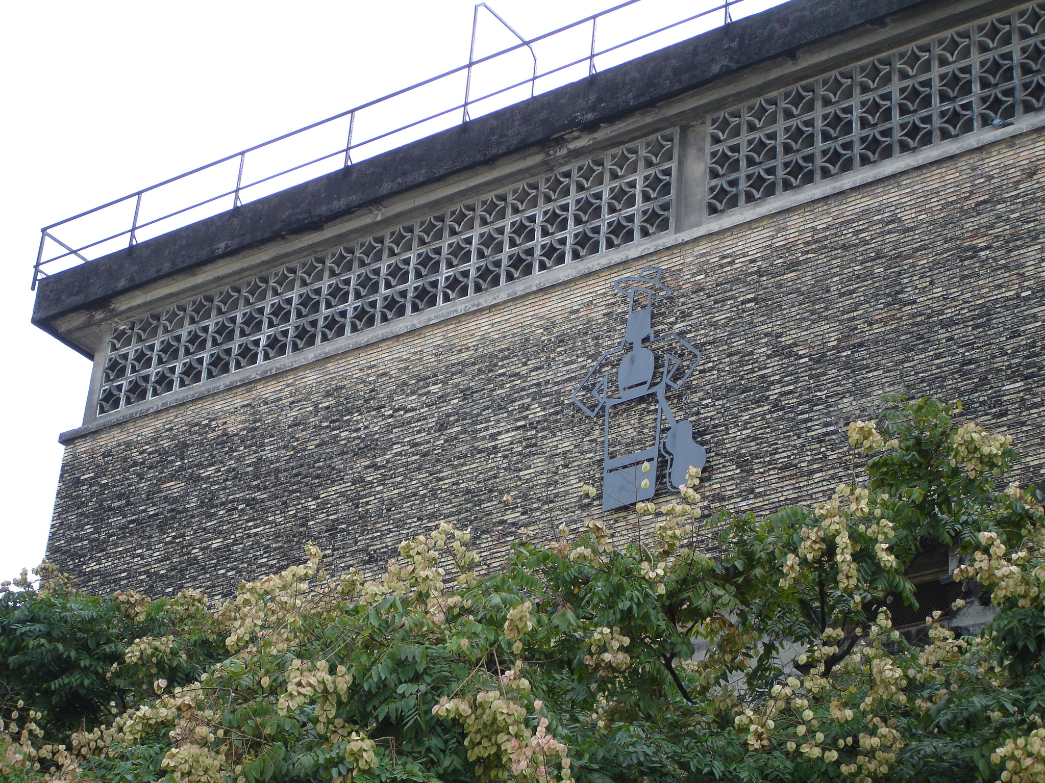 Three-floor sherry bodega in Jerez de la Frontera, Andalusia (Spain)